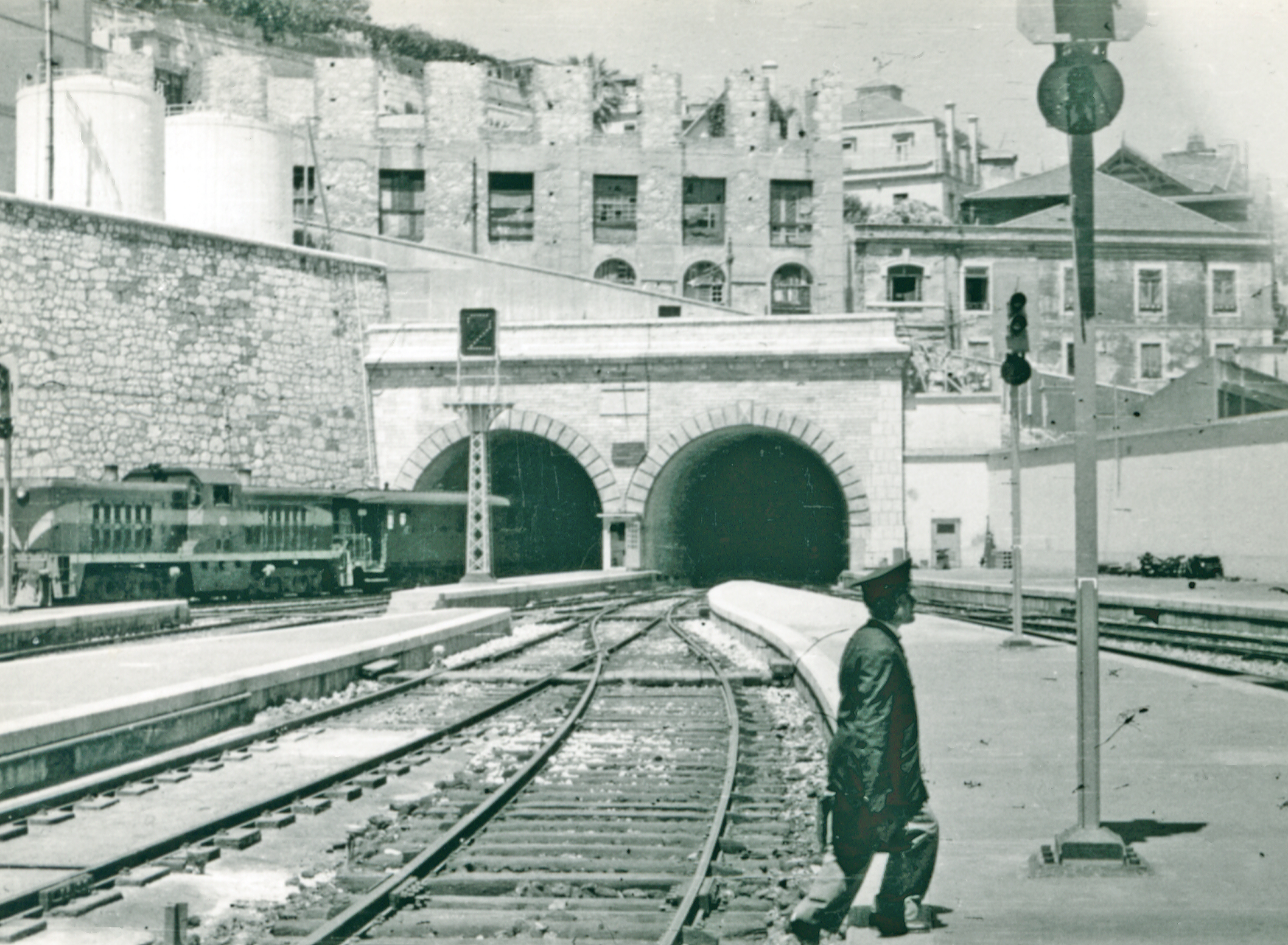 Lisboa, 1956: north end of Rossio Station to the tunnels, with Diesel-hauled local train arriving - and a passenger crossing tracks.